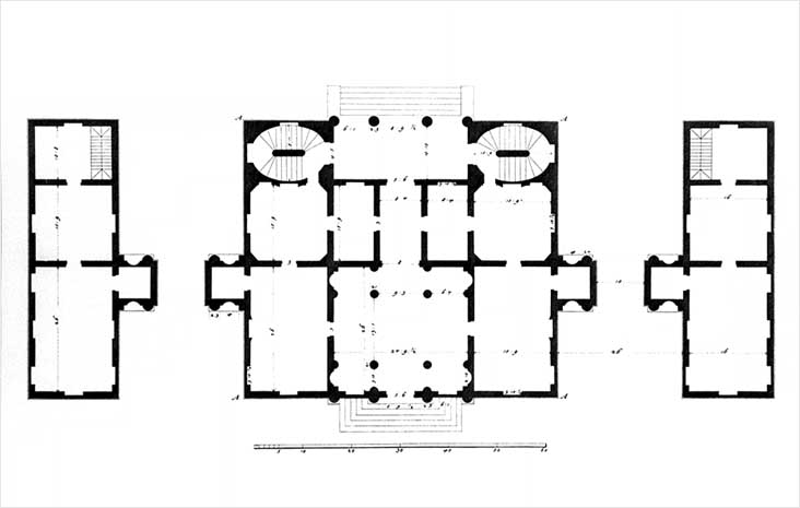 Villa Pisani in Montagnana by Andrea Palladio. Drawing by Ottavio Bertotti Scamozzi, 1778.